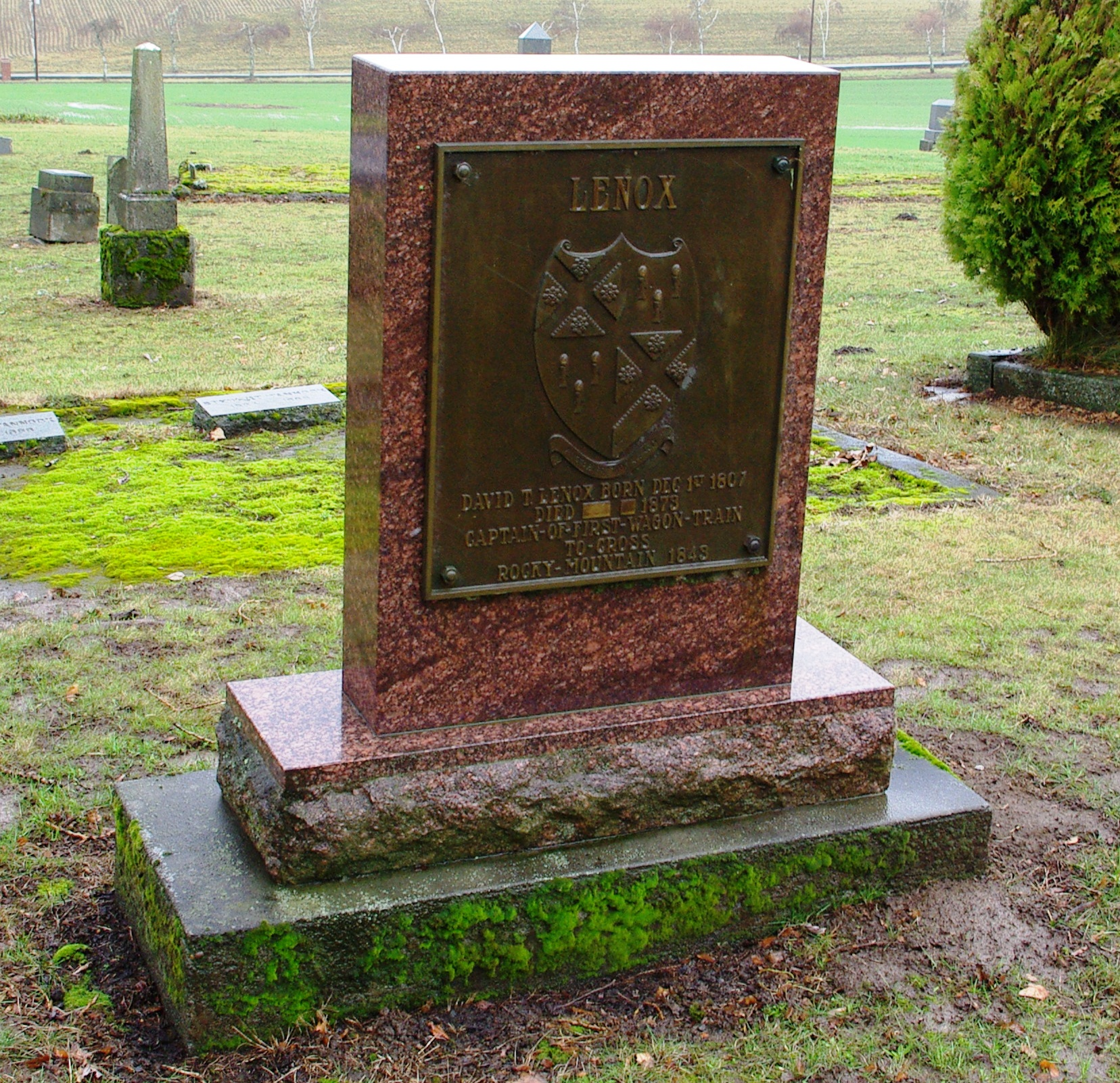 Plaque on pioneer David Thomas Lenox headstone at the West Union Baptist Church in Oregon.